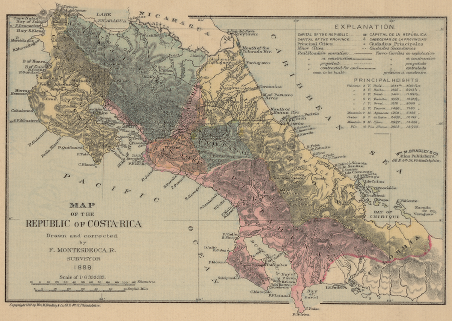 This 1891 map of Costa Rica shows the main physical features and administrative divisions of the country. The key, in the upper-right-hand corner, is in Spanish and English. Indicated on the map are the national capital, San José; provincial capitals; principal cities; minor cities; and railroads (in operation, under construction, projected, and “contracted for and soon to be built”). The highest mountains, volcanoes, and craters are indicated by the numbered key, and their heights given (inaccurately) in both feet and meters. The country’s seven provinces—Alajuela, Cartago, Guanacaste, Heredia, Limón, Puntarenas, and San José—are shown and distinguished by different colors. Costa Rica is shown as bordering directly on Colombia to the south, as the Republic of Panama was not established until 1903. The northern border, with Nicaragua, is formed by Lake Nicaragua and the San Juan River. The map was drawn by surveyor Faustino Montes de Oca Ramirez (1862–1902) and issued by William M. Bradley & Company, a prominent late-19th century publisher of maps and atlases based in Philadelphia.